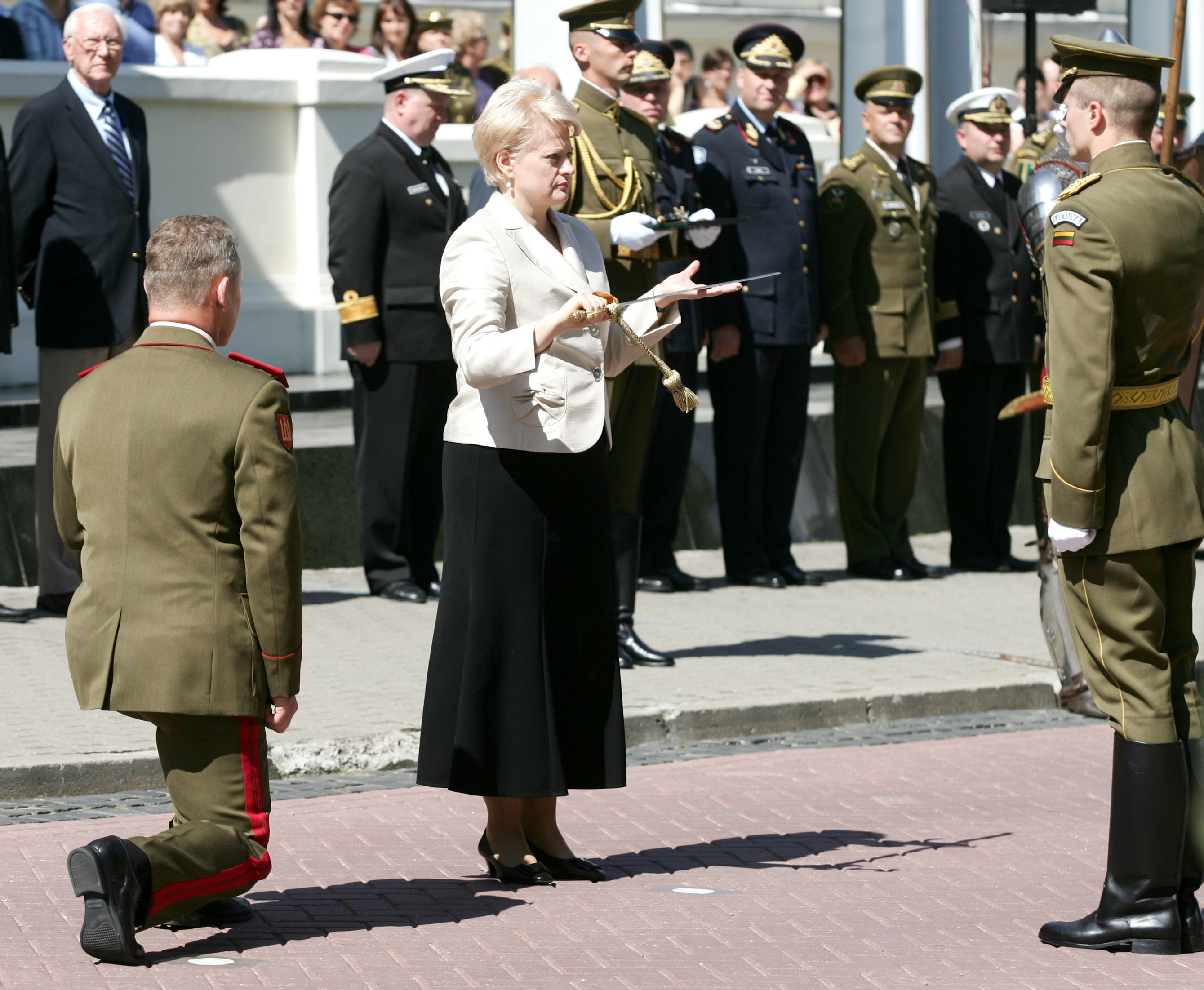 Lithuanian army commander Arvydas Pocius Presidential Inauguration 2009-07-28. Dalia Grybauskaite and Arvydas Pocius